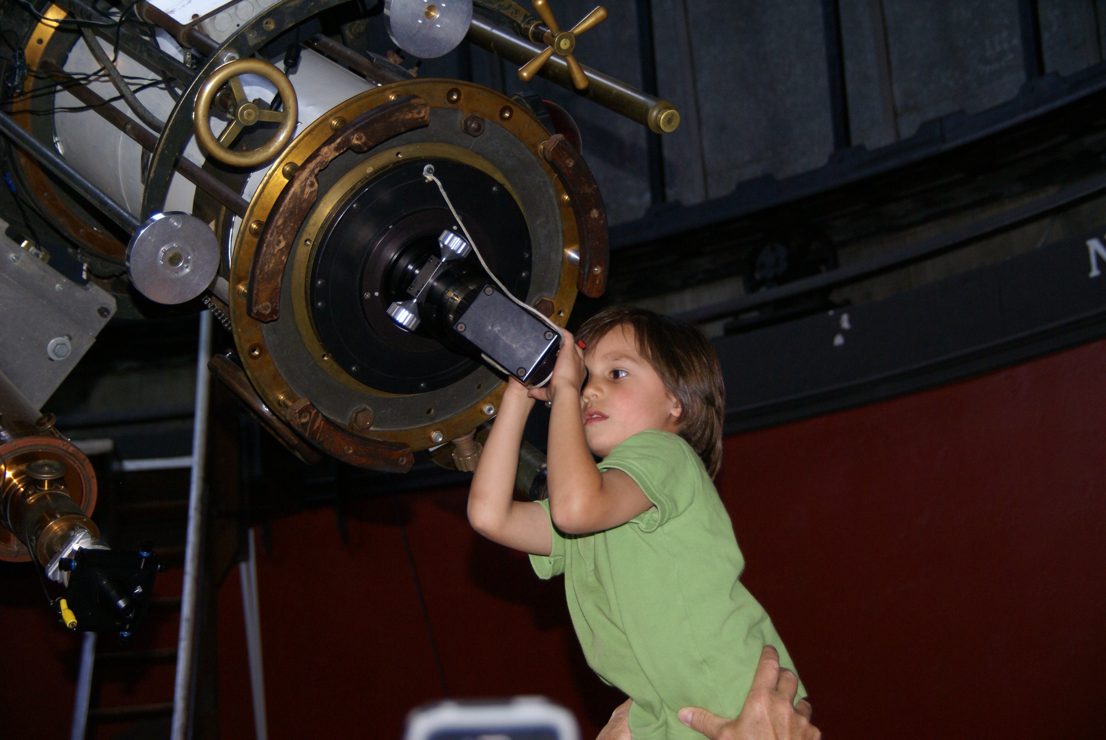 A little girl observing the solar eclipse at the Chamberlain observatory in Denver, Colorado